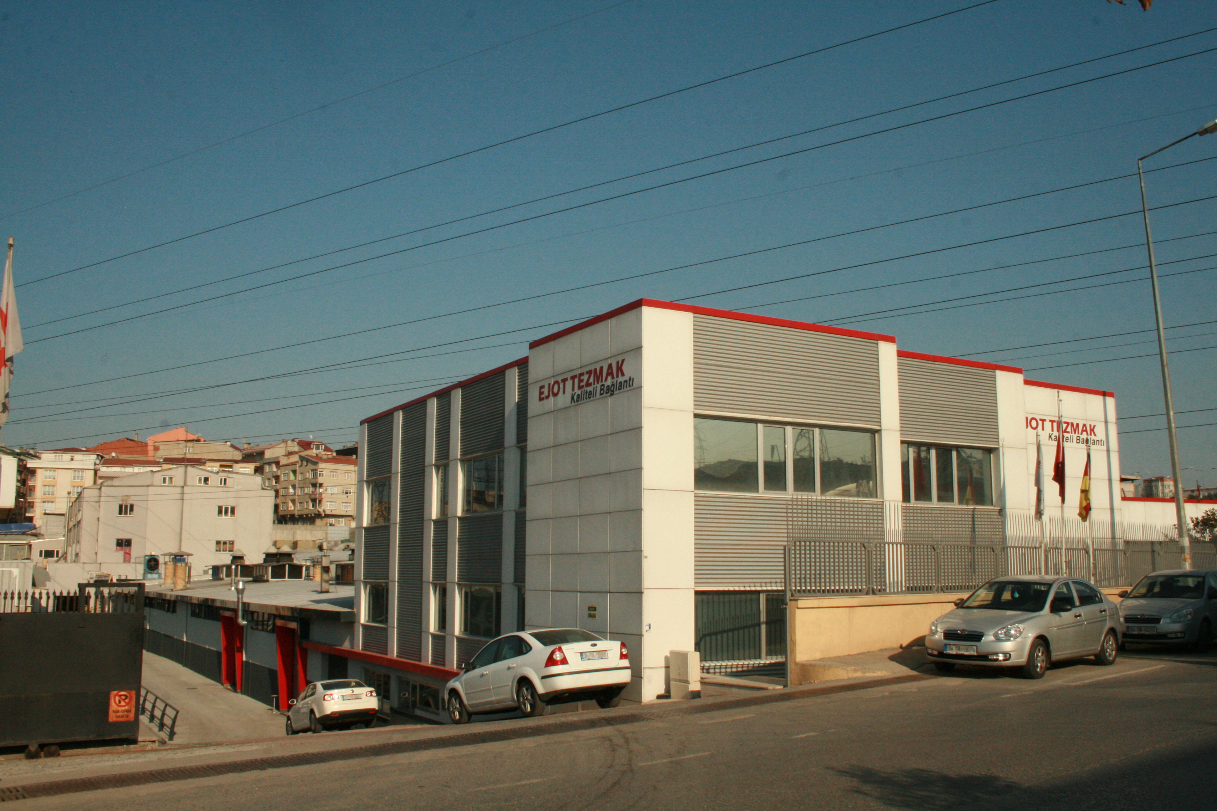 Building of EJOT Tezmak, Istanbul, Turkey.